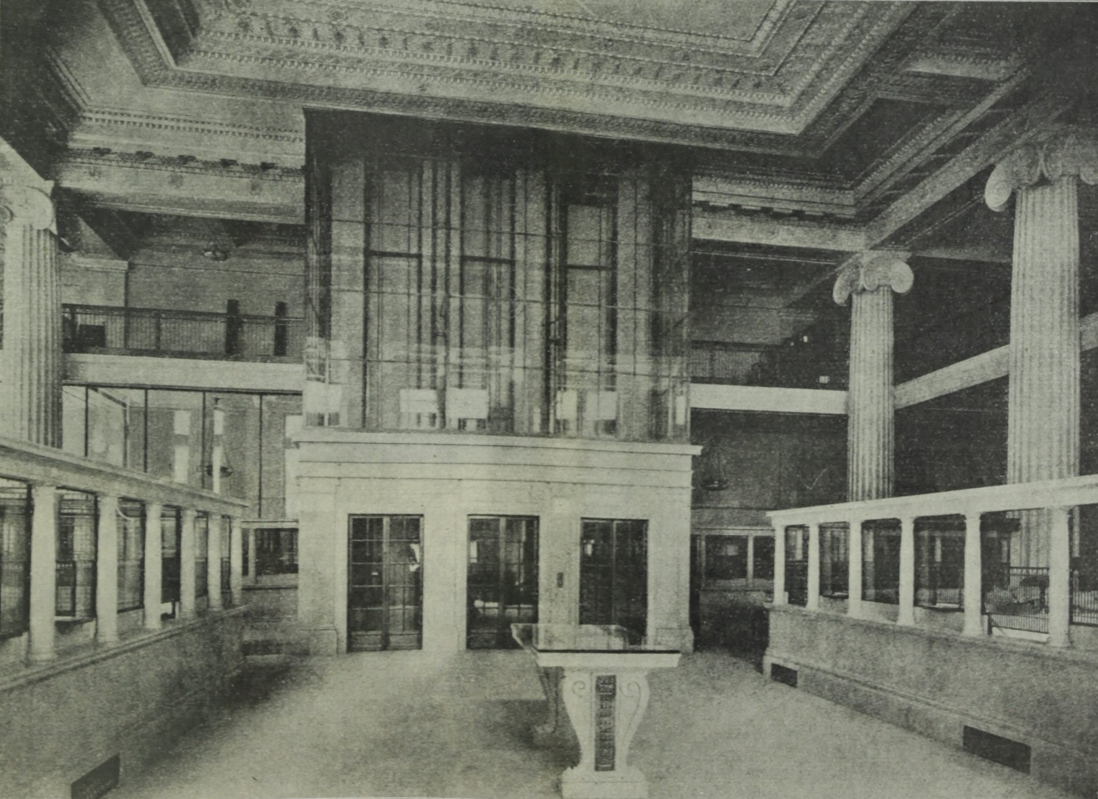 Bankers Trust Company Building, New York, 14 Wall Street, foyer, circa 1912